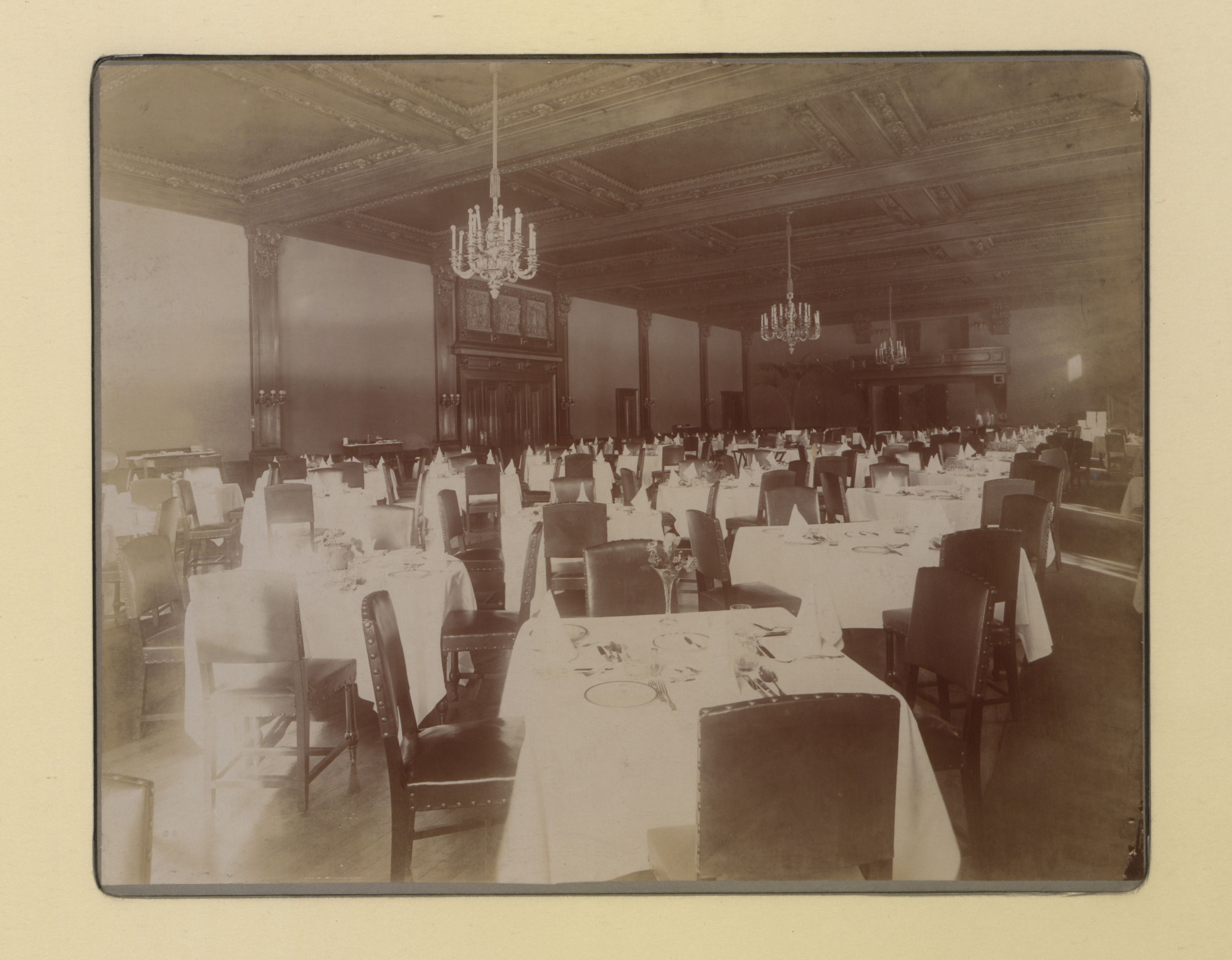 Original caption: “Drawing Room, Royal Alexandra Hotel, Winnipeg.”